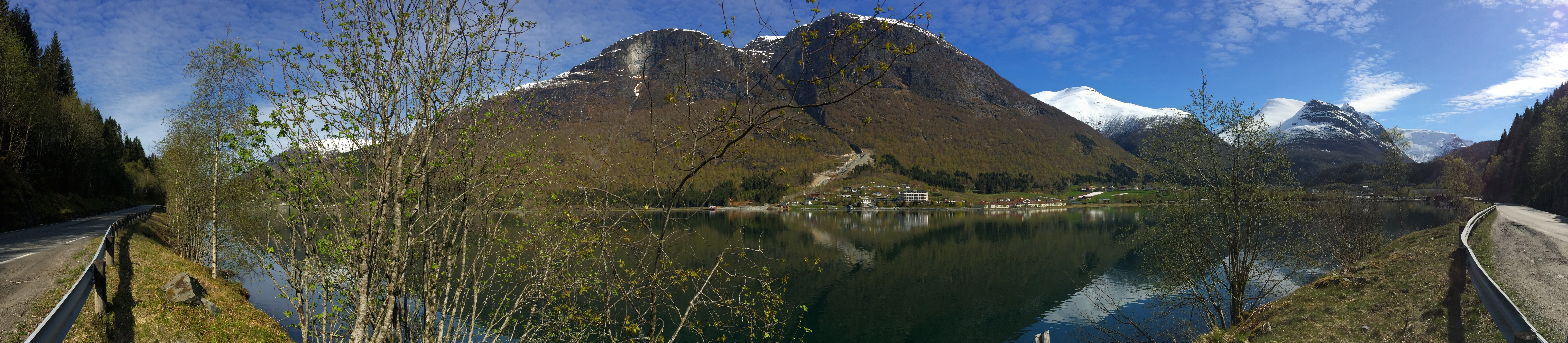 Fold-out-panorama of Innvikfjorden from Fylkesvei 60 towards Loen, Sogn og Fjordane, Norway 2014-05-05. (iPhone panoramic photo, distortion may occur in details and continuity.)